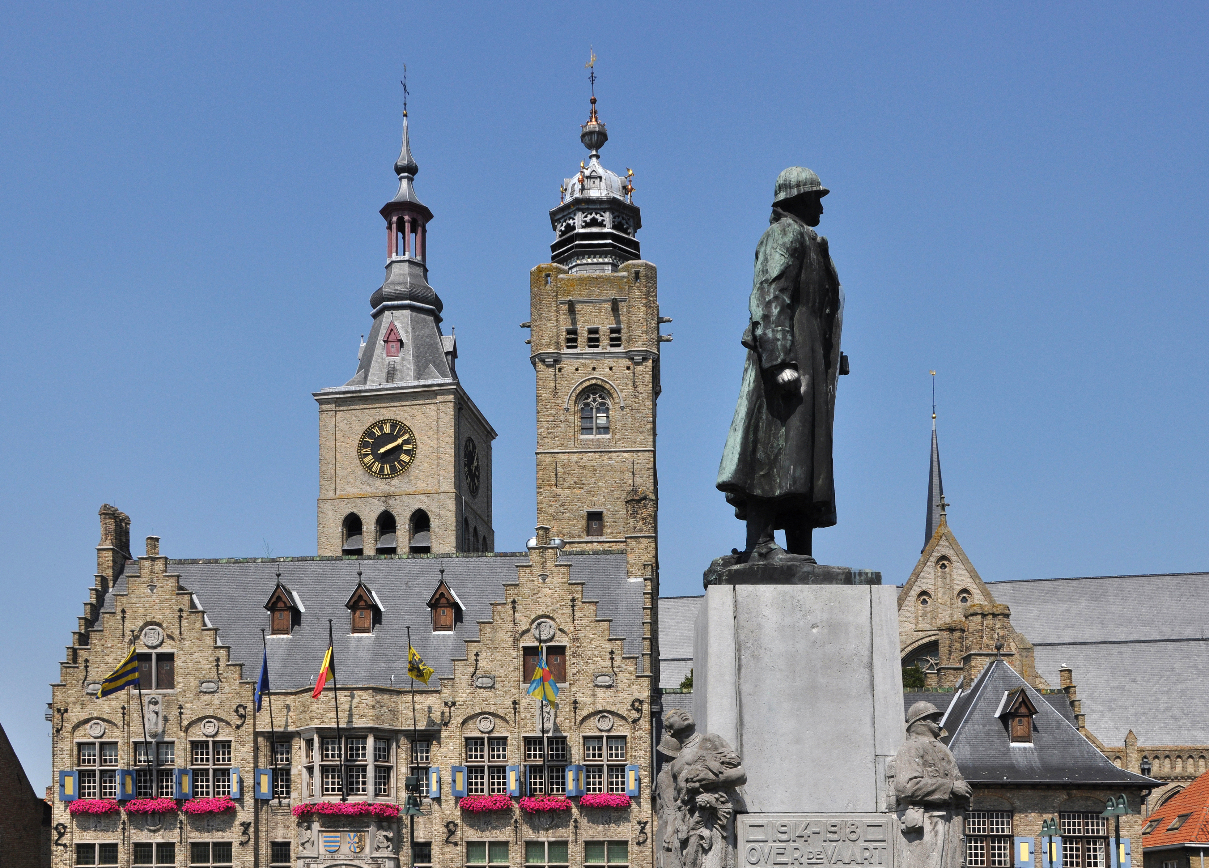 Diksmuide (Belgium): Town hall with belfry, the monument of General Jacques de Dixmude, and (in the background) the St Niklaas church